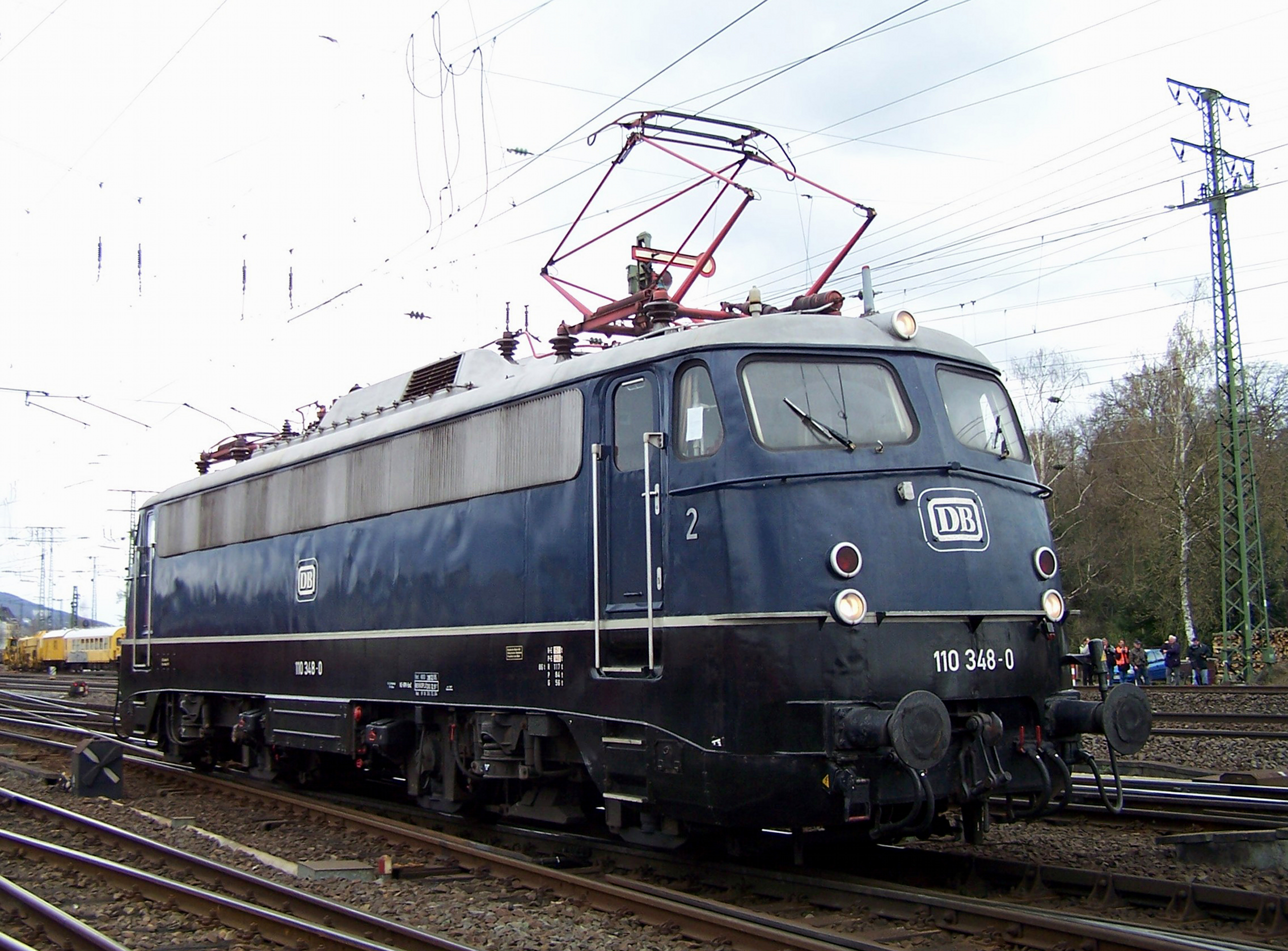 Electric locomotive 110 348 during a locomotive parade at the DB Museum in Koblenz-Lützel, a local branch of the Transport Museum in Nuremberg, April 2010